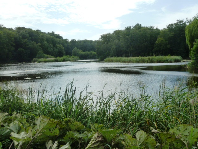 The lake Enrum Dam in Enrum Forest at Strandvejen North of Copenhagen, Denmark